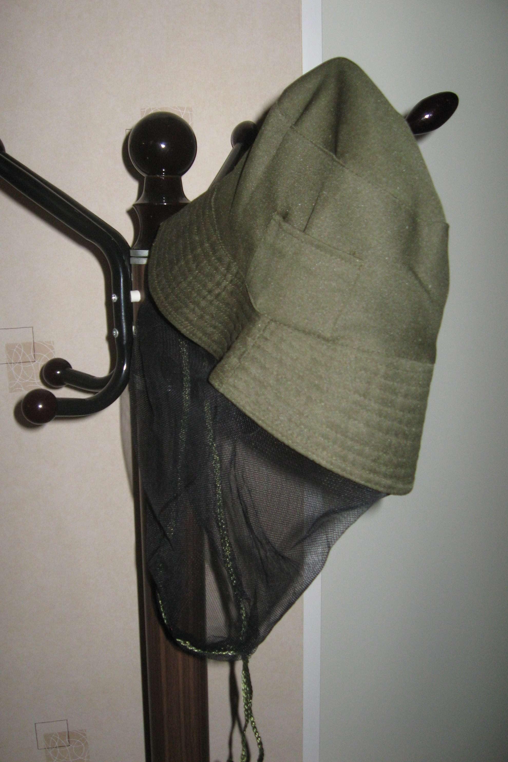 Shield against insects